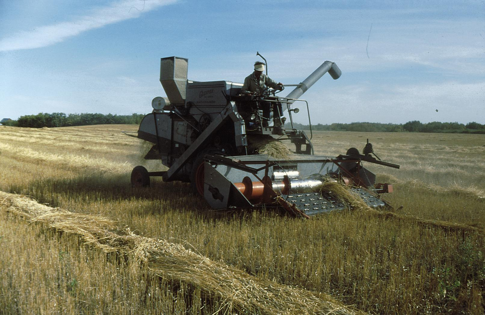 1965 Allis-Chalmers Gleaner E combine in the Dysart area, Saskatchewan, Canada.